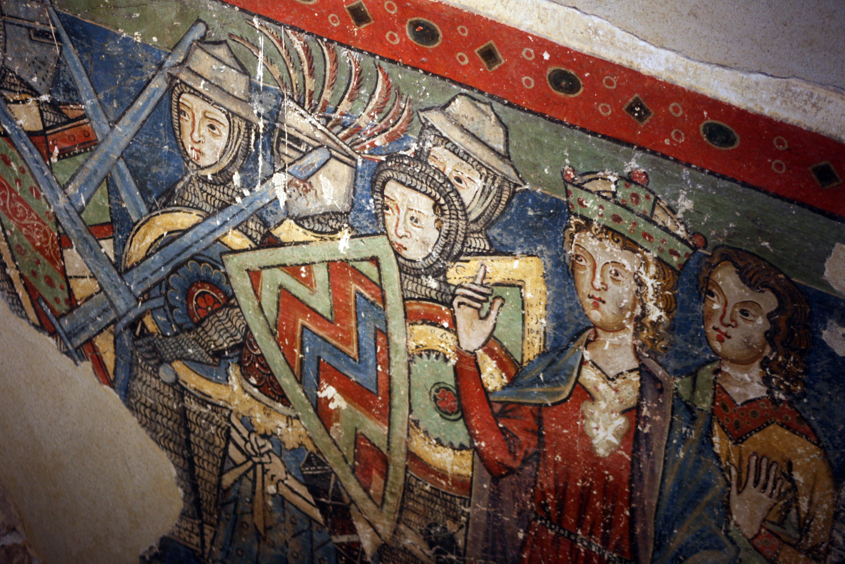 Detail from the "Freskensaal" at the former city castle "Gozzoburg"